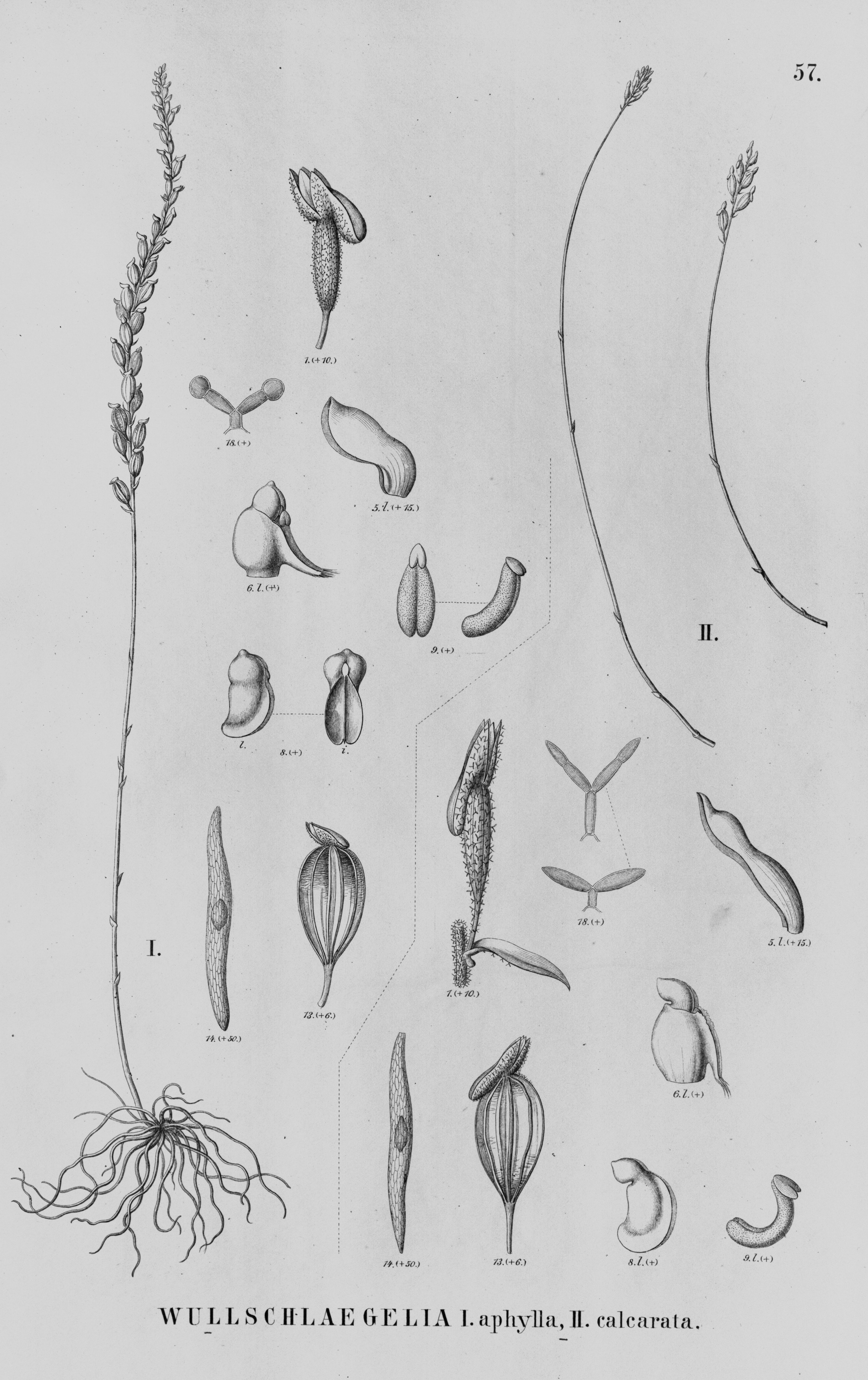 Illustrations of Wullschlaegelia aphylla and Wullschlaegelia calcarata